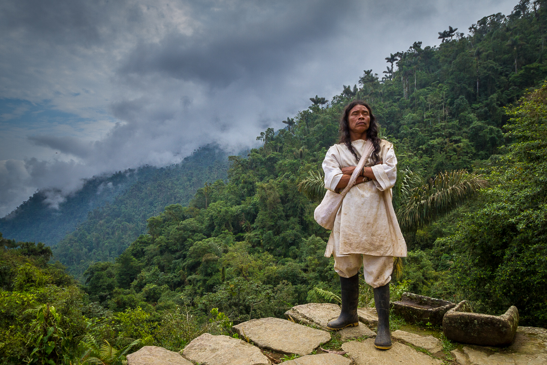 A portrait of a Koguis Tribesman on one of the terraces at Ciudad Perdida, Colombia.